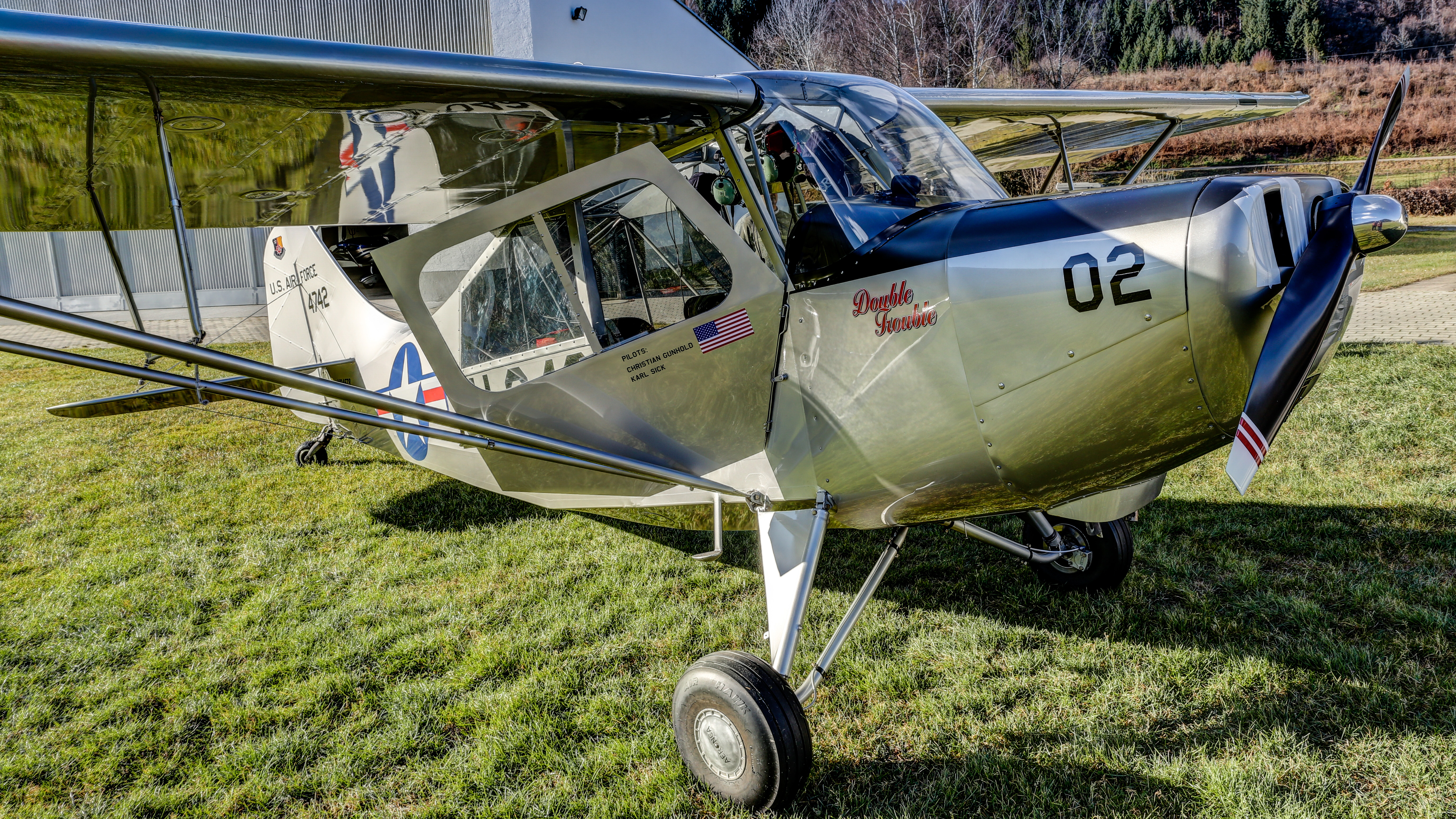 Aircraft (Light Aircraft) Aeronca L-16 7BCM at the airfield of Feldkirchen in Carinthia / Austria / EU. This fully restored[2] 1947 built aircraft was a liaison aircraft for the US Army, as they were mainly used in the Korean War. It is a militarized version of the Aeronca Champion.